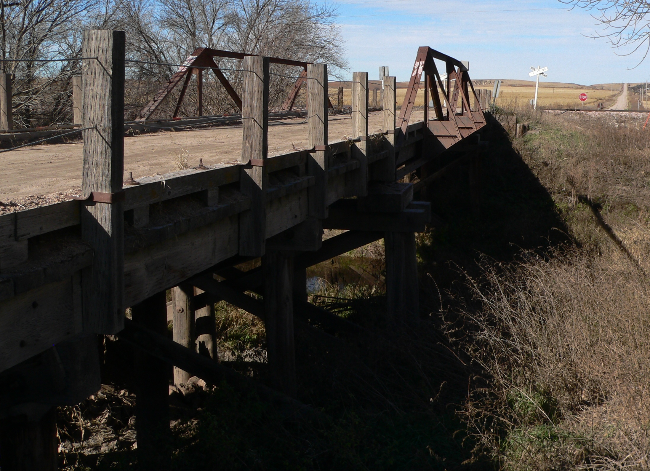 Sappa Creek Bridge in Harlan County, Nebraska. The bridge is located on County Road D just south of Nebraska Highway 89, about two miles east of Stamford. The picture was taken facing north-northwest (upstream). The Pratt pony truss bridge was built in 1916 by the Illinois Steel Co. and the Milwaukee Bridge Co. It is still in use. The bridge is listed in the National Register of Historic Places.